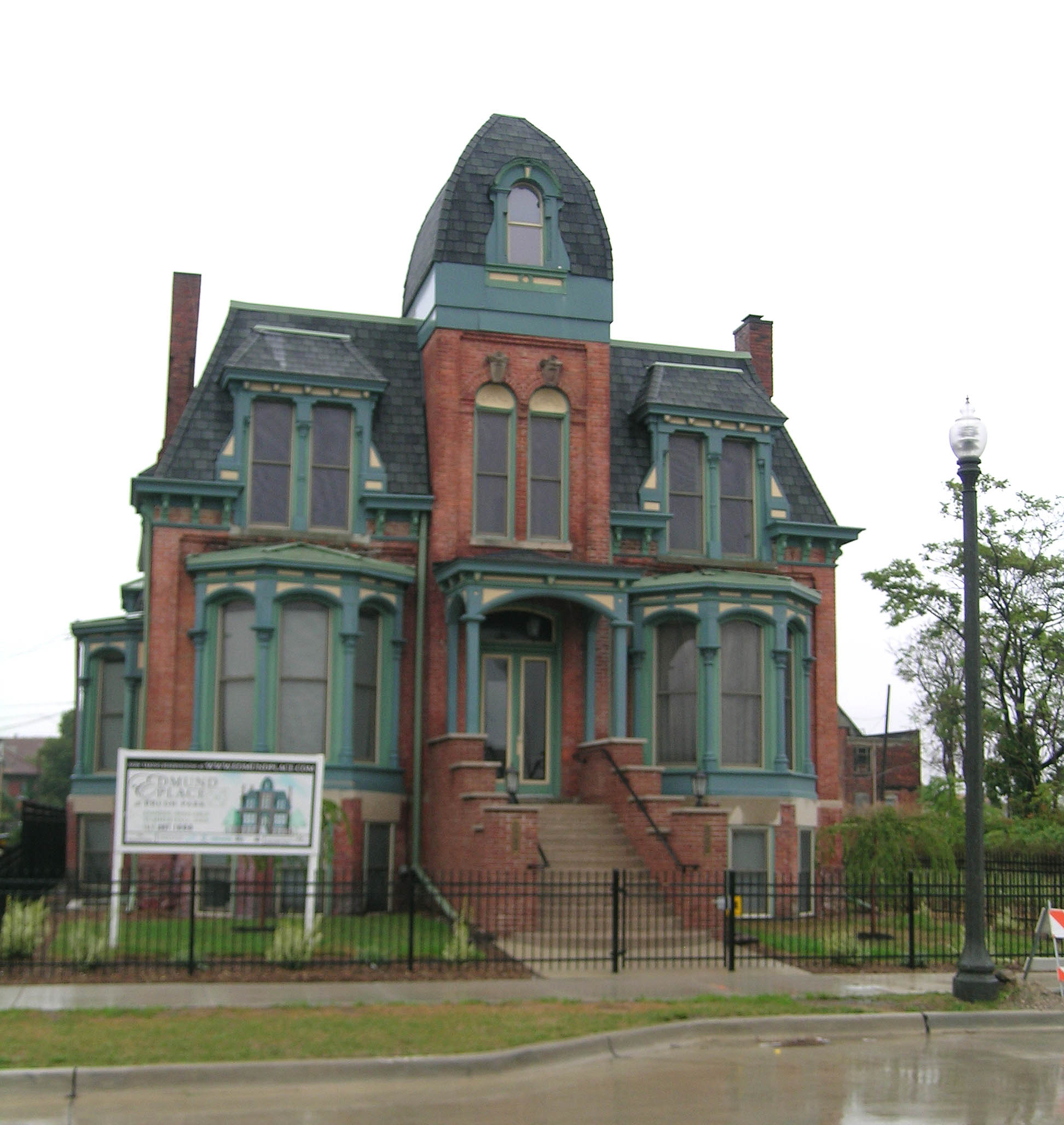 Frederick Butler House at 291 Edmund Place — in the Woodward East Historic District — Detroit, Michigan. Built in 1882, in the Second Empire style. Contributing property to the Woodward East H.D. in Midtown Detroit, which is completely encompassed by the larger Brush Park Historic District.